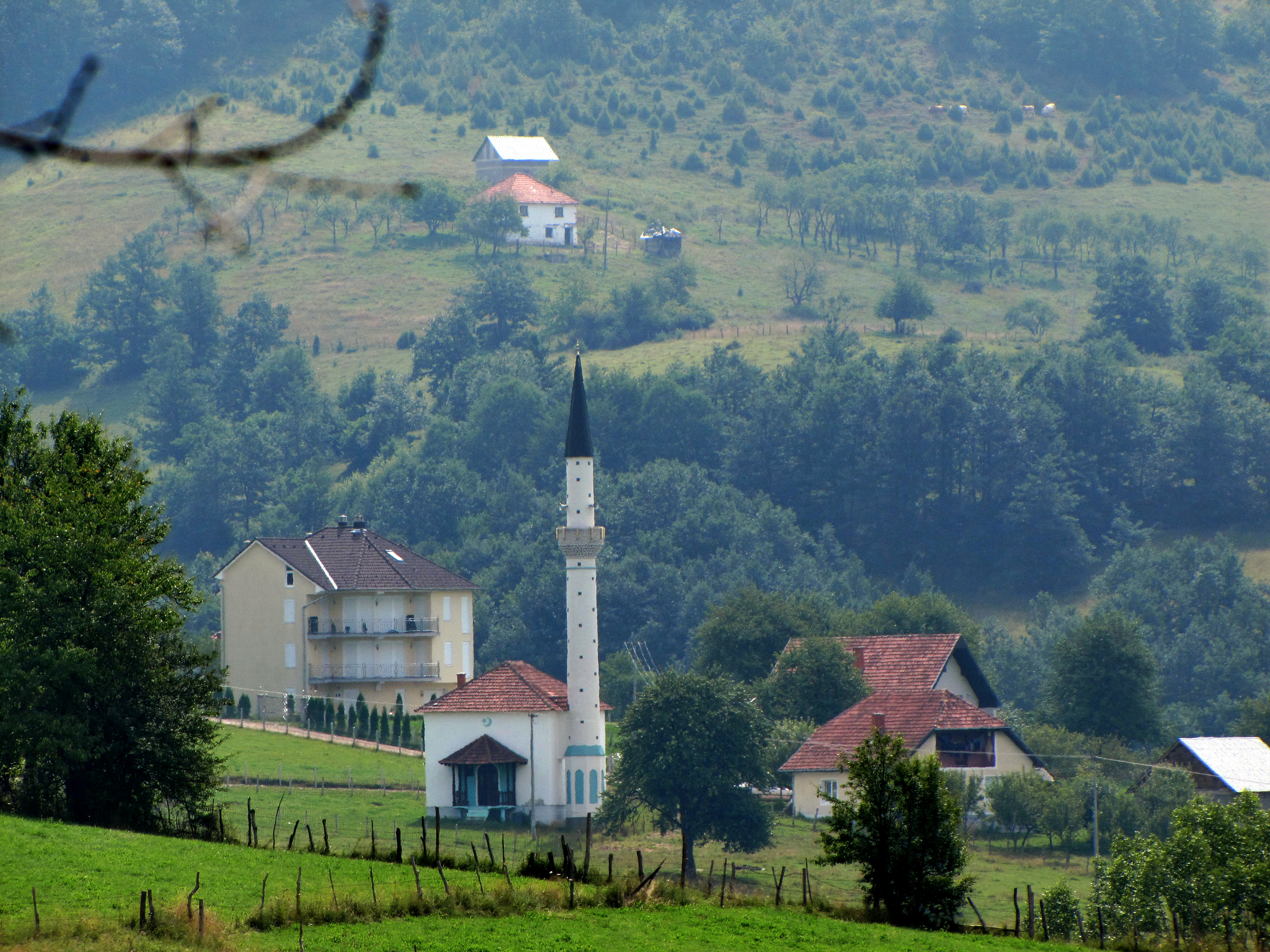 Mosque in village Župa (near Tutin, SW Serbia).